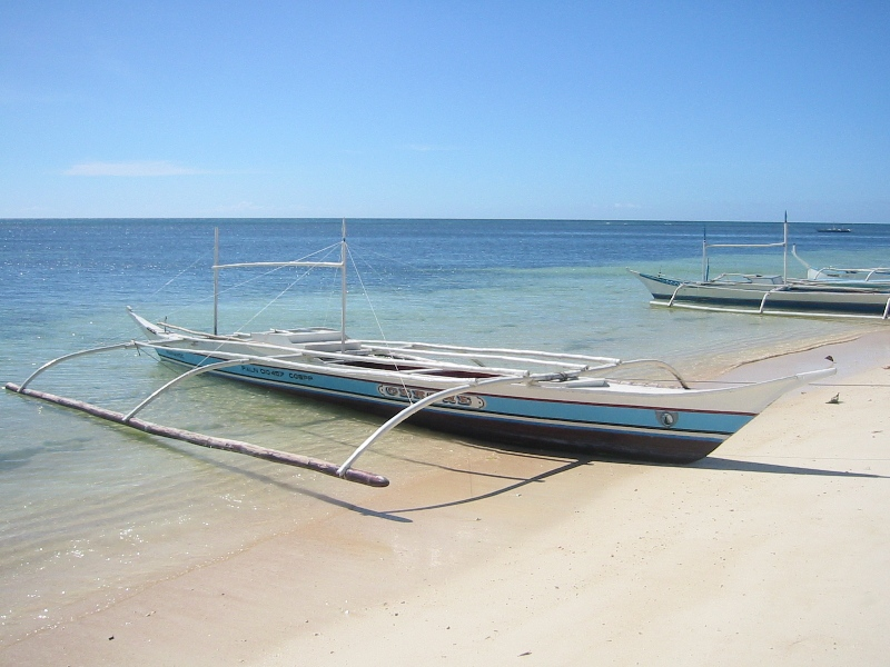 Manamoc island. Personal photograph, May 2004. Released in the Public Domain.